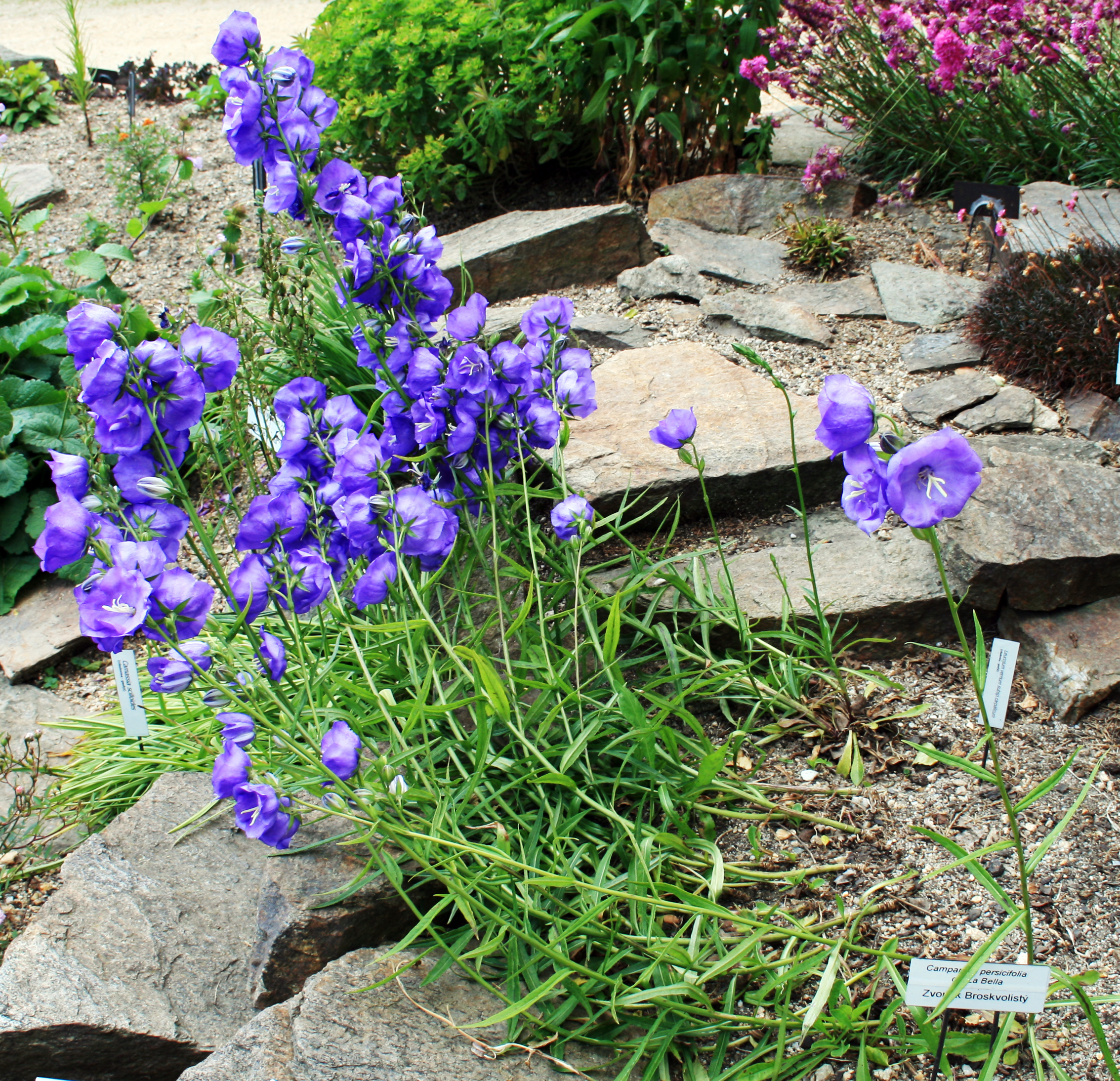 Campanula persicifolia in Botanical Garden Liberec, Czech Republic